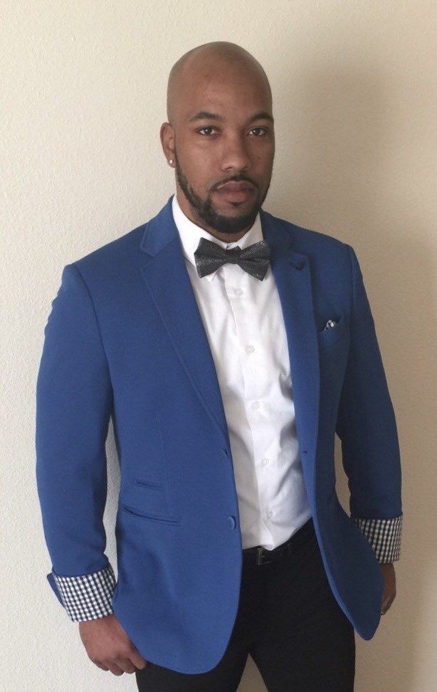 Most recent photo of Derrick Locke at the age of 29